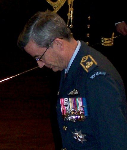 Investiture of Sir Bruce Ferguson as KNZM, by the governor-general, Sir Anand Satyanand, at Old St Paul's, Wellington, on 14 August 2009